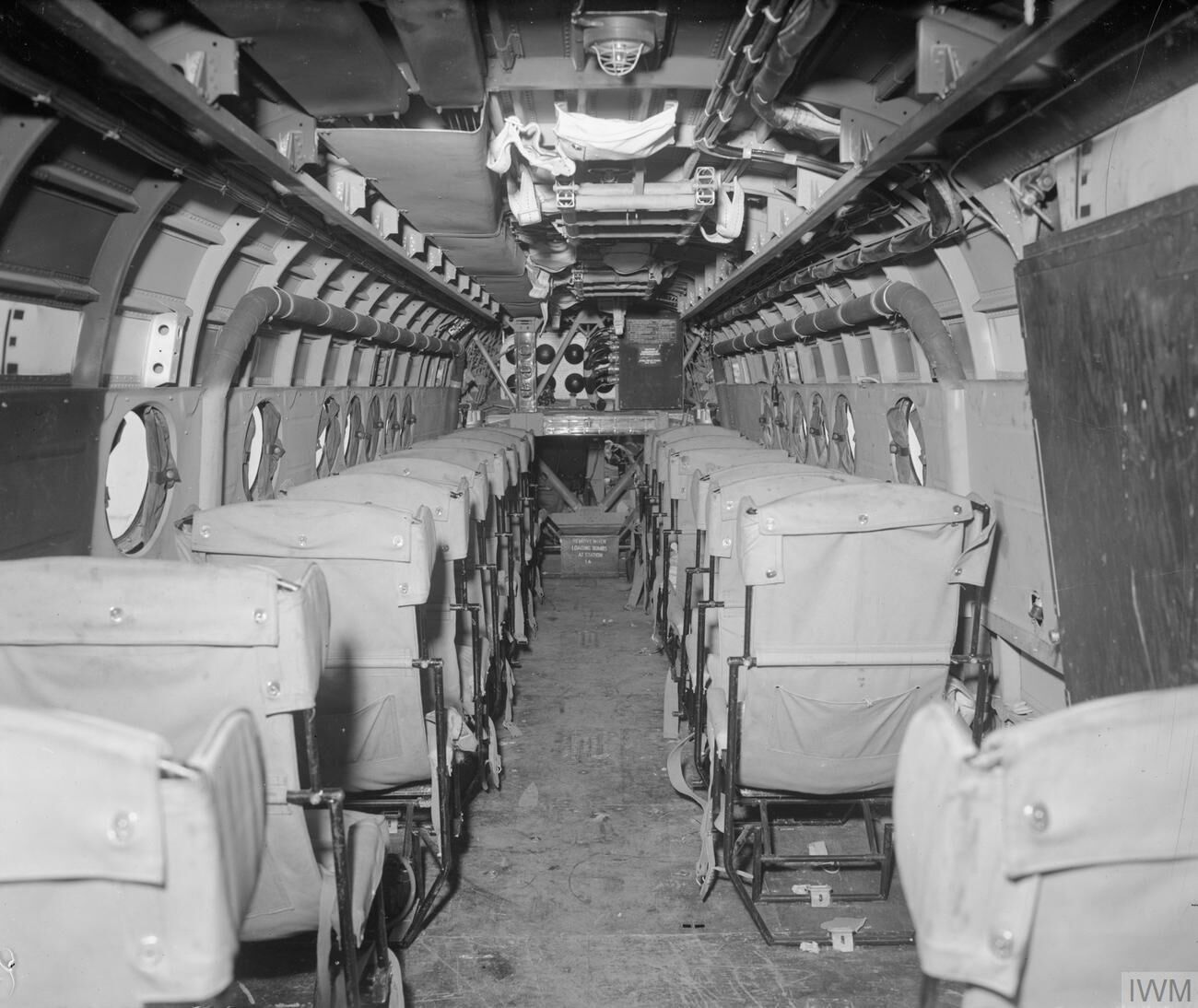 Royal Air Force Transport Command, 1943-1945. Interior of the passenger compartment of Short Stirling Mark V, PK143, of No. 242 Squadron RAF at Stony Cross, Hampshire.